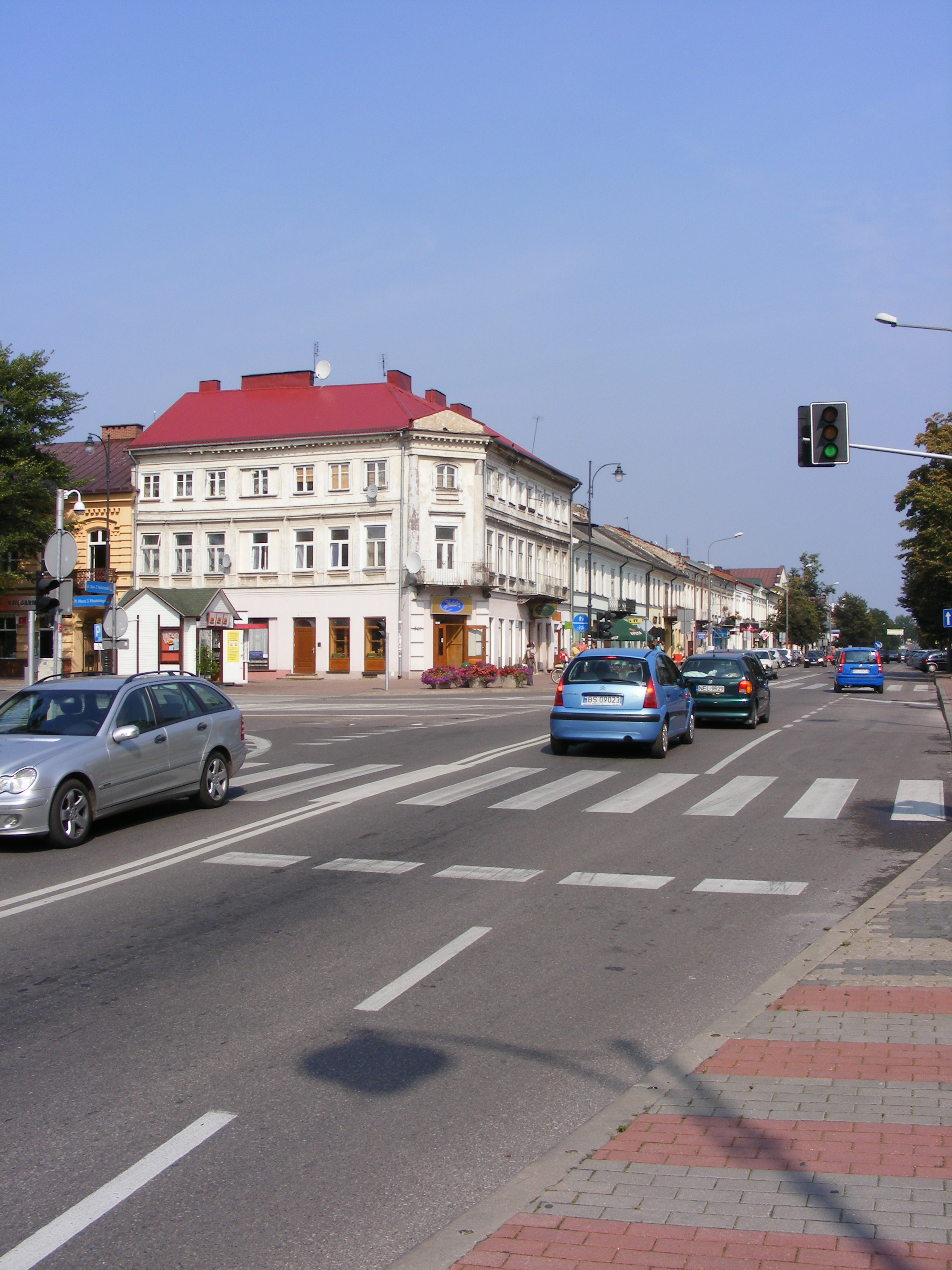 Kościuszko street in Suwałki.